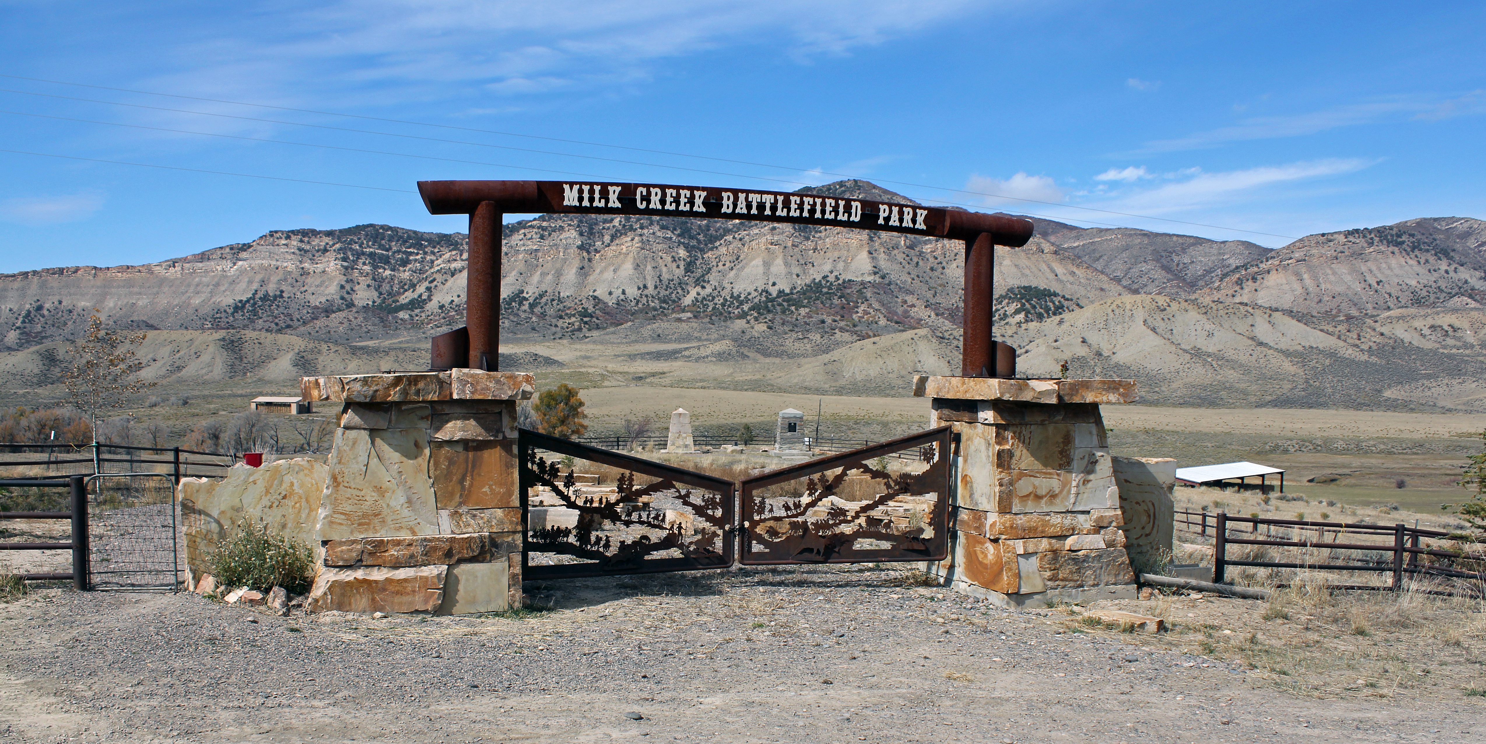 The Milk Creek Battlefield Park, located on County Road 15, between mile markers 11 and 12, in Rio Blanco County Colorado. The park memorializes a battle between the United States Army and the White River Utes that occurred in September, 1879.. There are two main monuments. The one on the left is for the U.S. Army soldiers who were killed and wounded. It was made in Chicago and brought to the battlefield site (actually located in the valley down the hill from the park) within a few years after the battle. In the late 1940s, it was moved to its current location, and a new base added. The monument on the right commemorates the Ute dead and wounded and was placed there and dedicated in 1993. The site is also called the Thornburgh Battle Ground and the older monument the Thornburgh Monument, named after Thomas T. Thornburgh, a U.S. Army major who died in battle there.